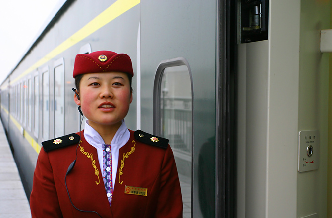 Rail attendant. On a slow train from Xining to Lhasa (Tibet, China).